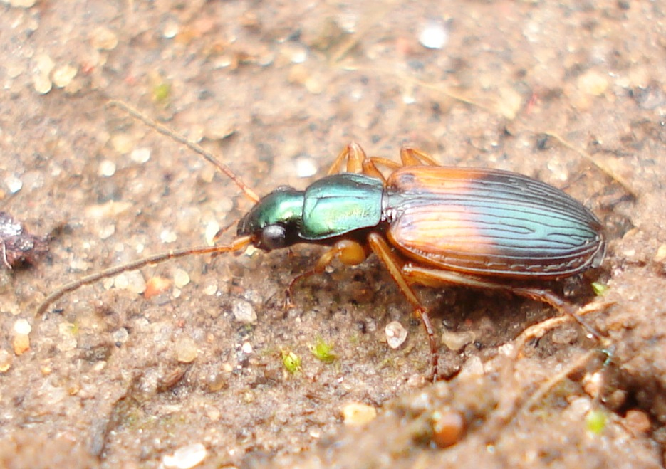 Anchomenus dorsalis